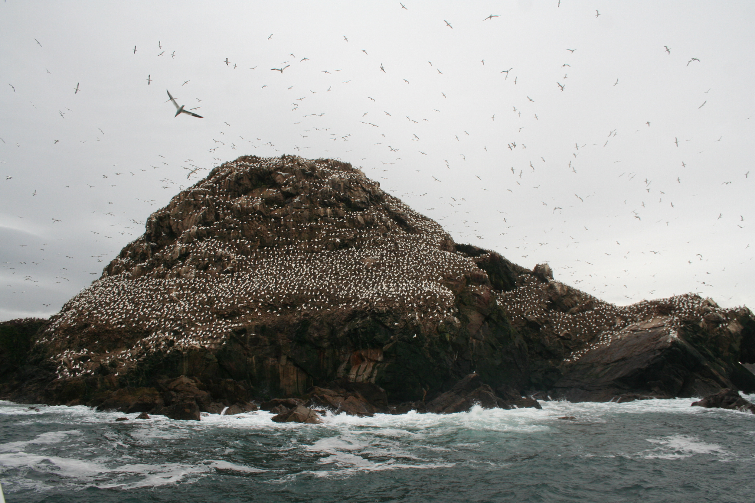 One of the islets of the Sept-Iles Nature Reserve (Brittany), with a colony of Northern Gannets. It is the southernmost gannetry in Europe, and holds about 11,500 pairs[1].